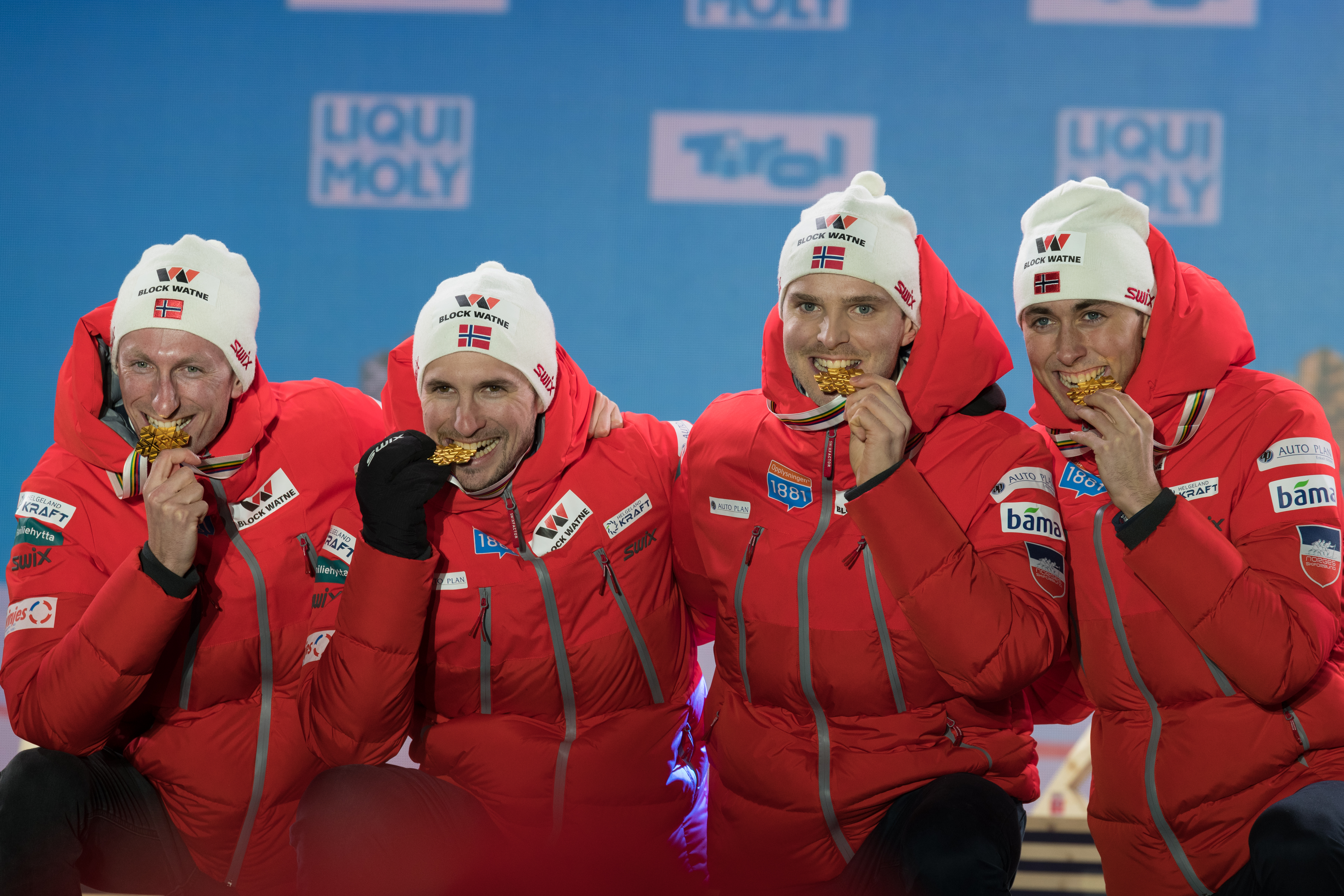 FIS Nordic World Ski Championships Seefeld 2019 - Medal Ceremony at the Medal Plaza. Picture shows Team Norway with Espen Bjoernstad (NOR), Jan Schmid (NOR), Joergen Graabak (NOR) and Jarl Magnus Riiber (NOR).